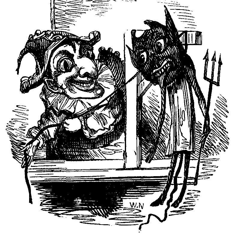 An illustration taken from a scan of the cover of Punch magazine volume 1, published in London in 1841.